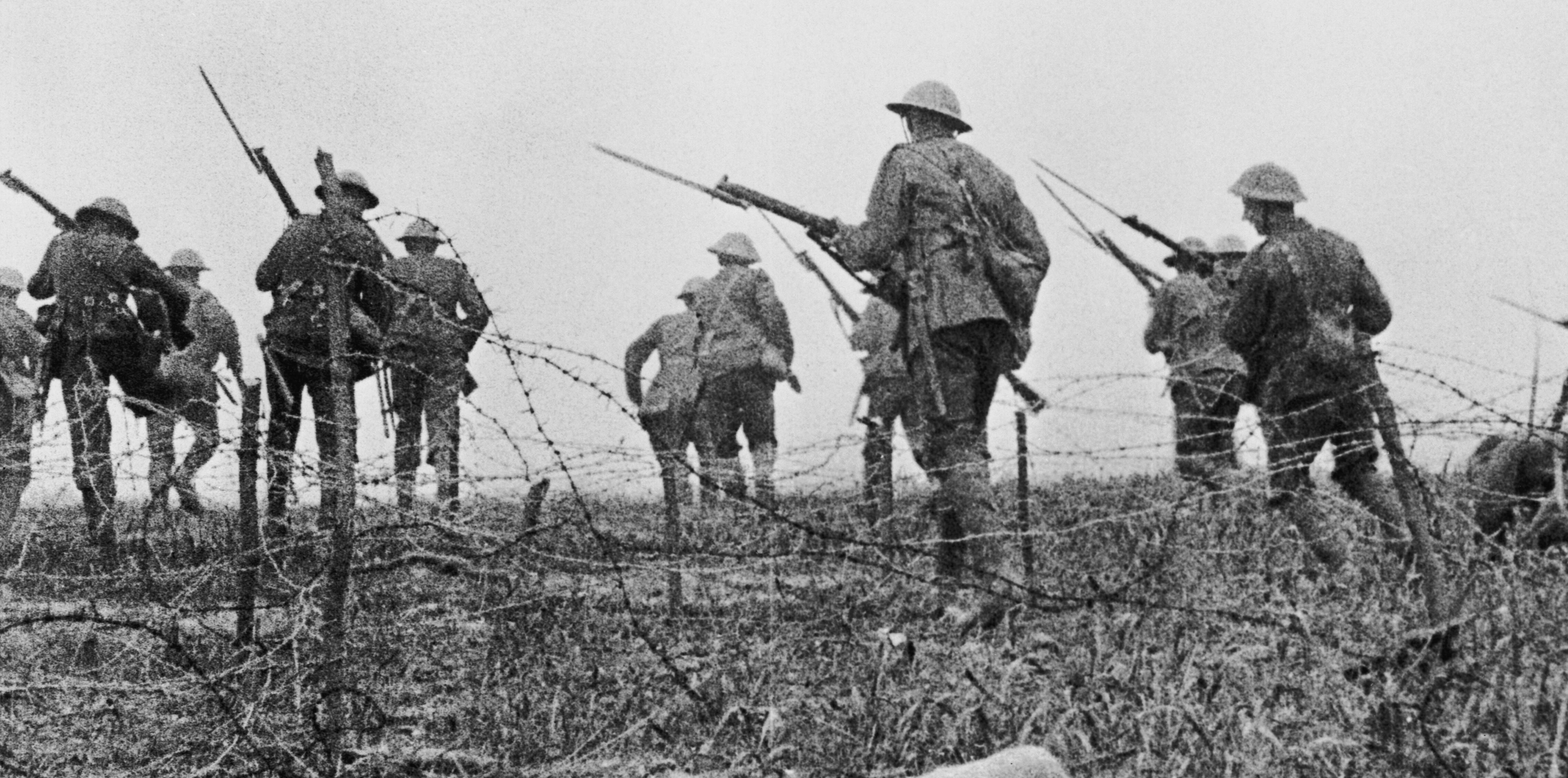 Still image from the film The Battle of the Somme showing a staged attack. Believed to be shot before the opening of the battle on 1 July 1916, possibly at a trench mortar school behind the lines.